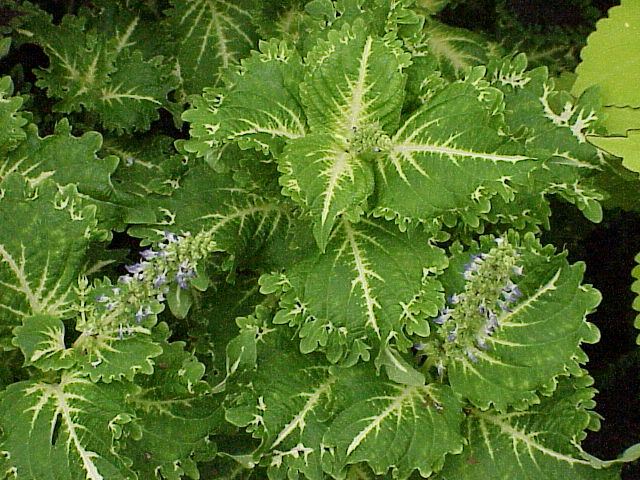 Species: Coleus sp. Family: Lamiaceae Image No. 3